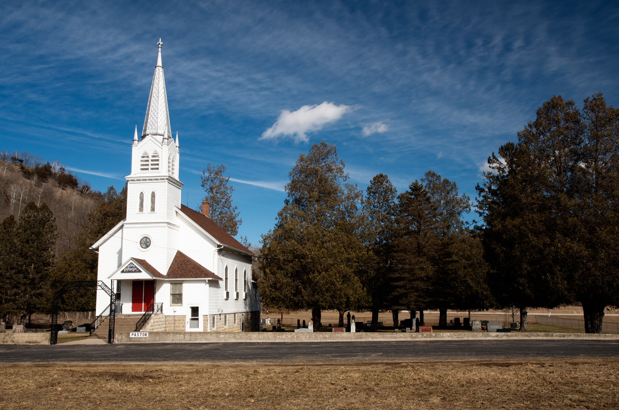 Cedar Valley Lutheran Church sits about halfway up Cedar Valley near Winona, MN.